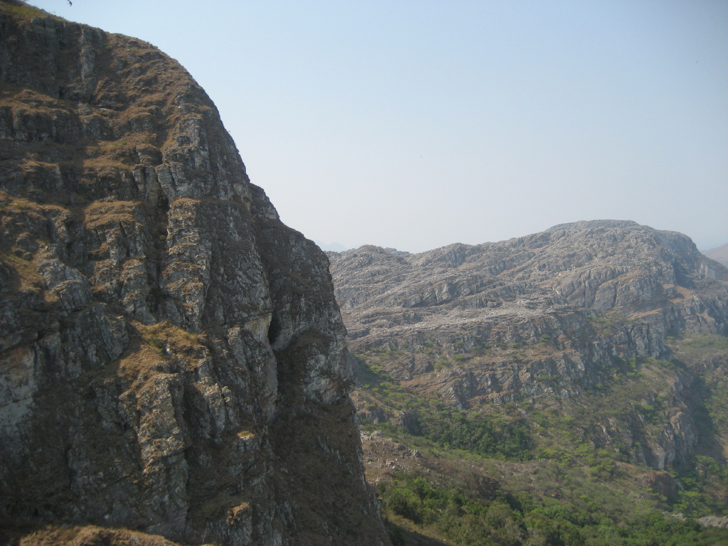 Monte Tchinyamwea, in the northern part of the Chimanimani Mountains of Mozambique.